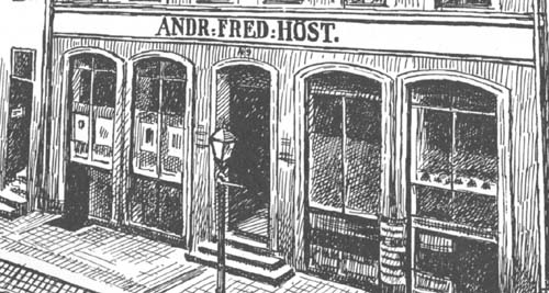 Høst's bookshop in c. 1840 in Copenhagen, Denmark.